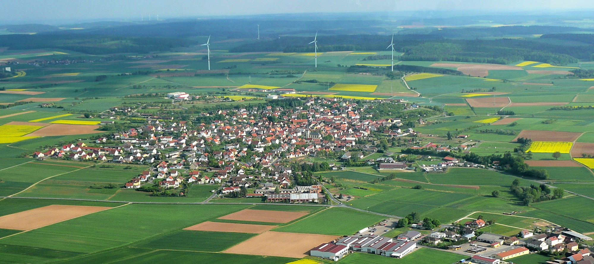 Aerial view of Steinfeld (Lower Franconia), Germany